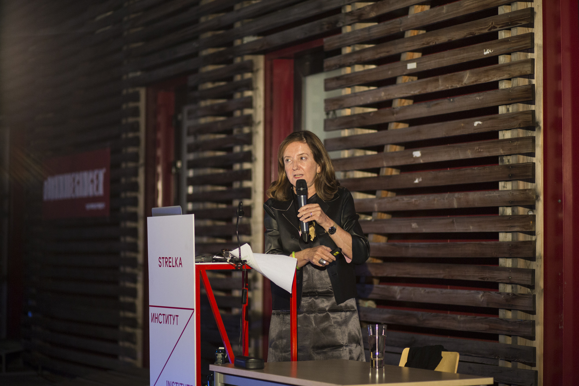 BEATRIZ COLOMINA- TOWARDS A RADICAL PEDAGOGY LECTURE